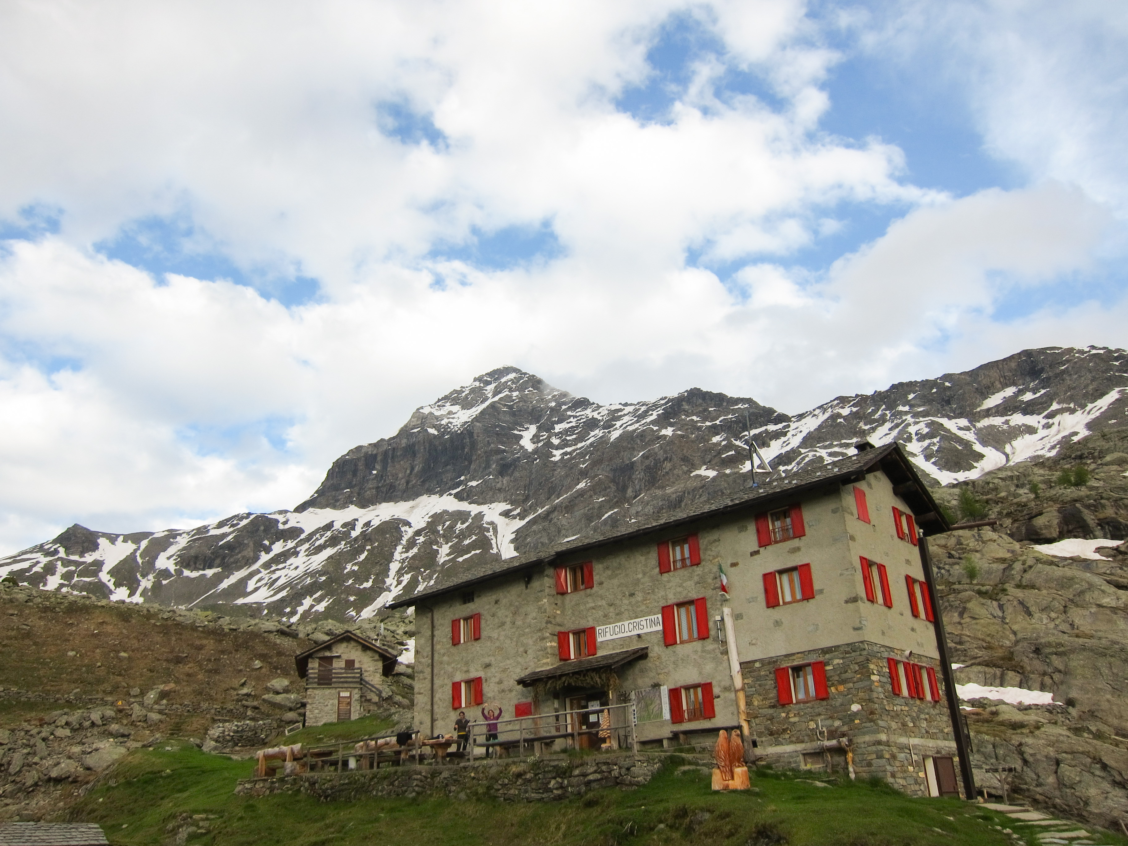 Alpine Hut Rifugio Cristina at Alpe Prabello settlement at 2.287 Pizzo Scalino mountain (3.323 m s.l.m.) in Valmalenco, Sondrio, Lombardia, Italy. Foto scattata il 2018-06-09.